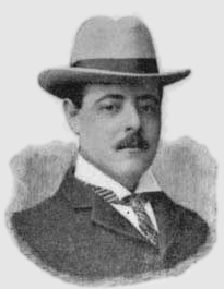 photograph of Ernest J. Bellocq